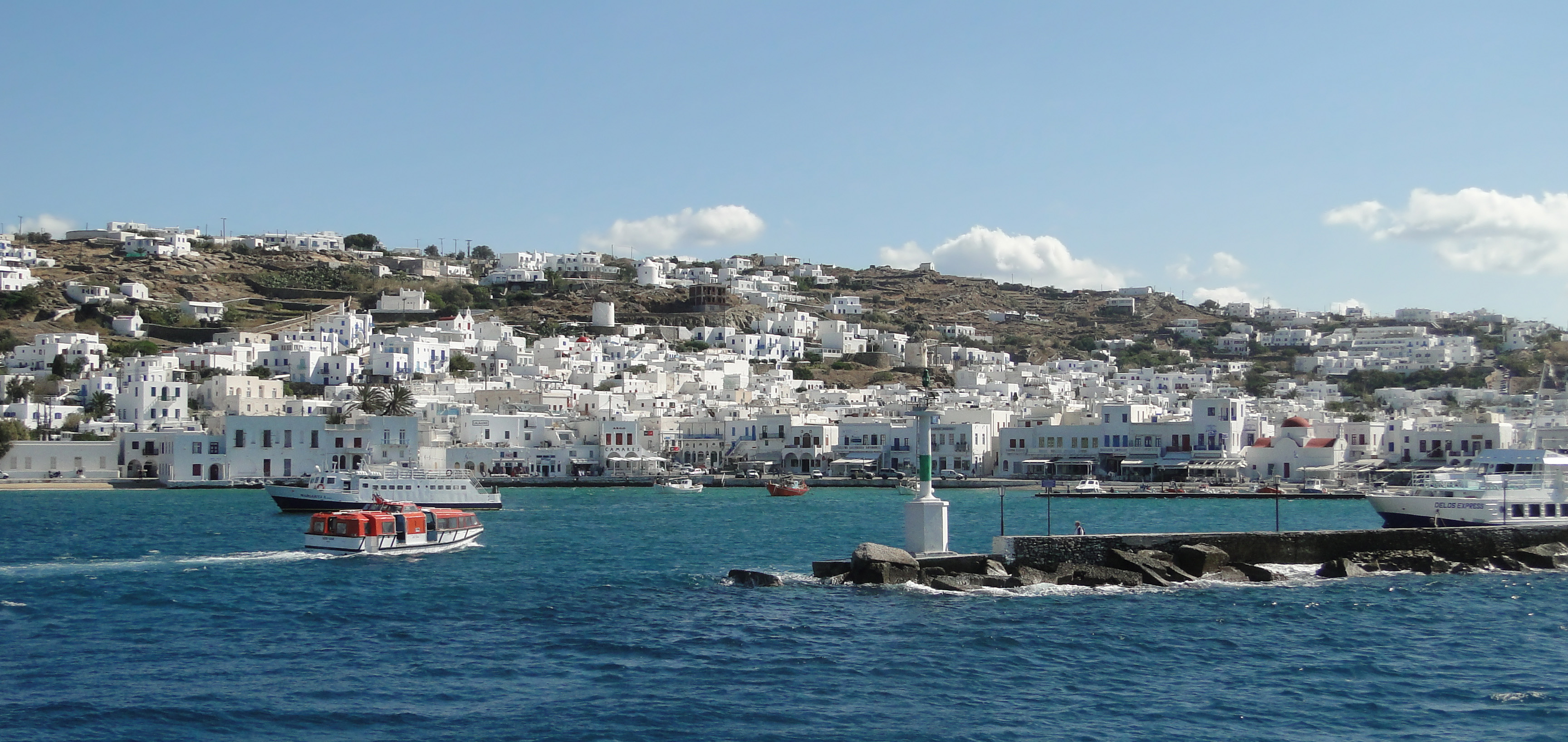 Old port of Mykonos, Greece